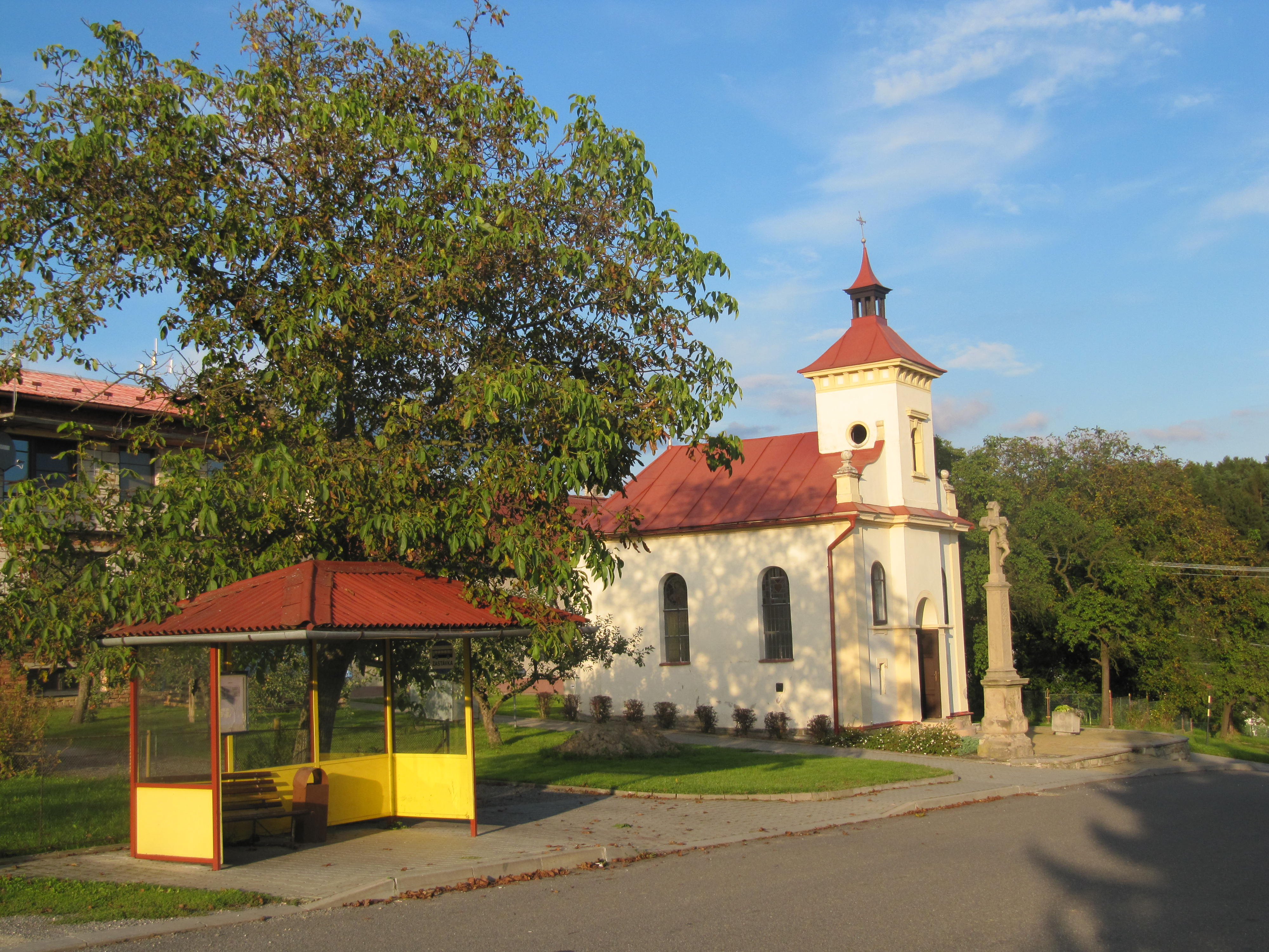 Karlovice in Zlín District, Czech Republic.Bus stop and chapel.